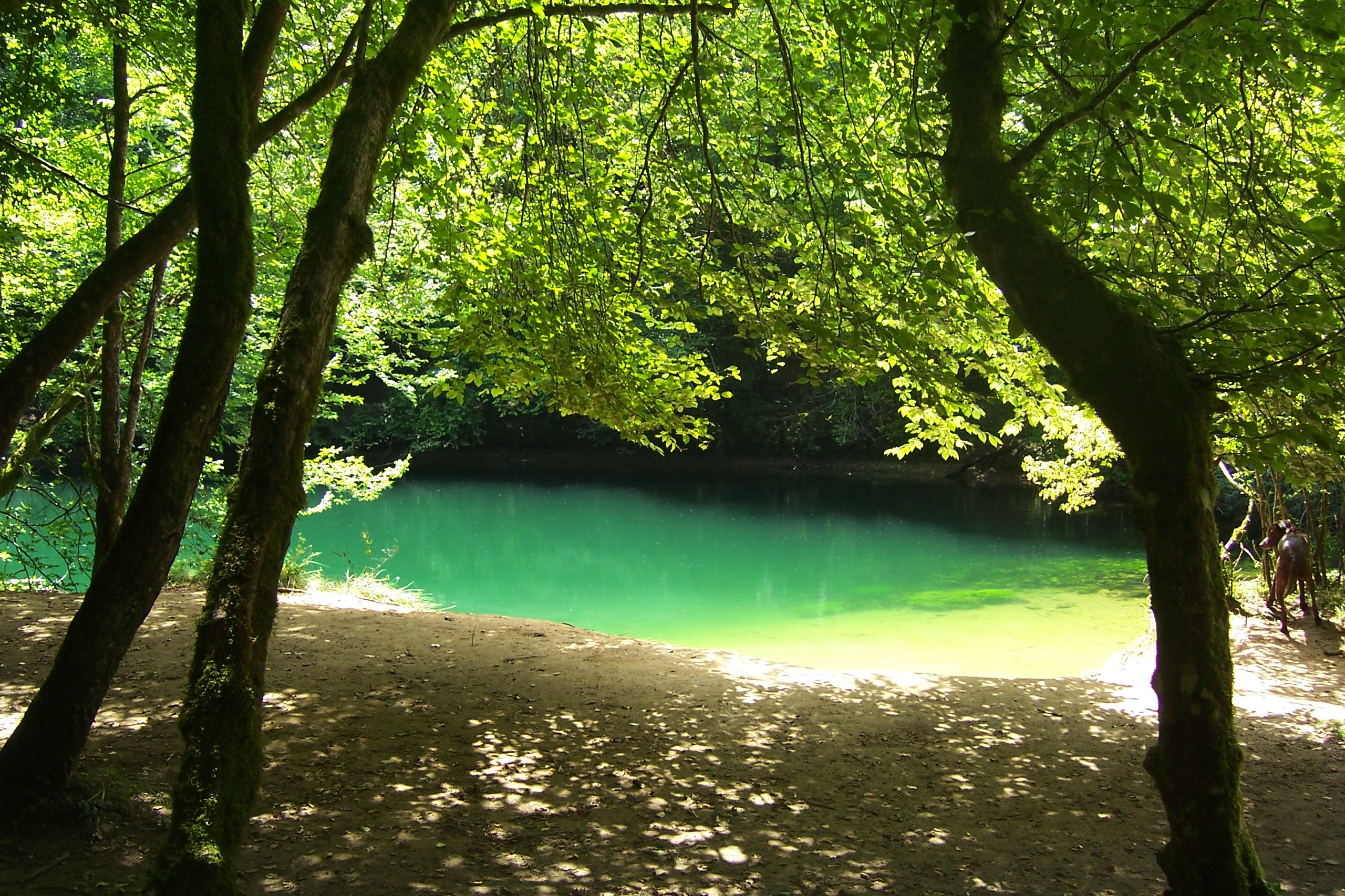 Resurgence of Saint-Sauveur, town of Calès, a branch of the river Ouysse.